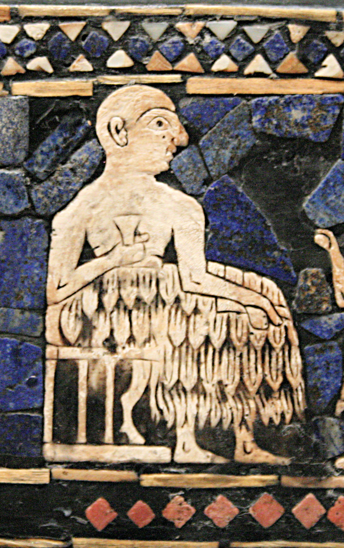 Ur-Palbisag